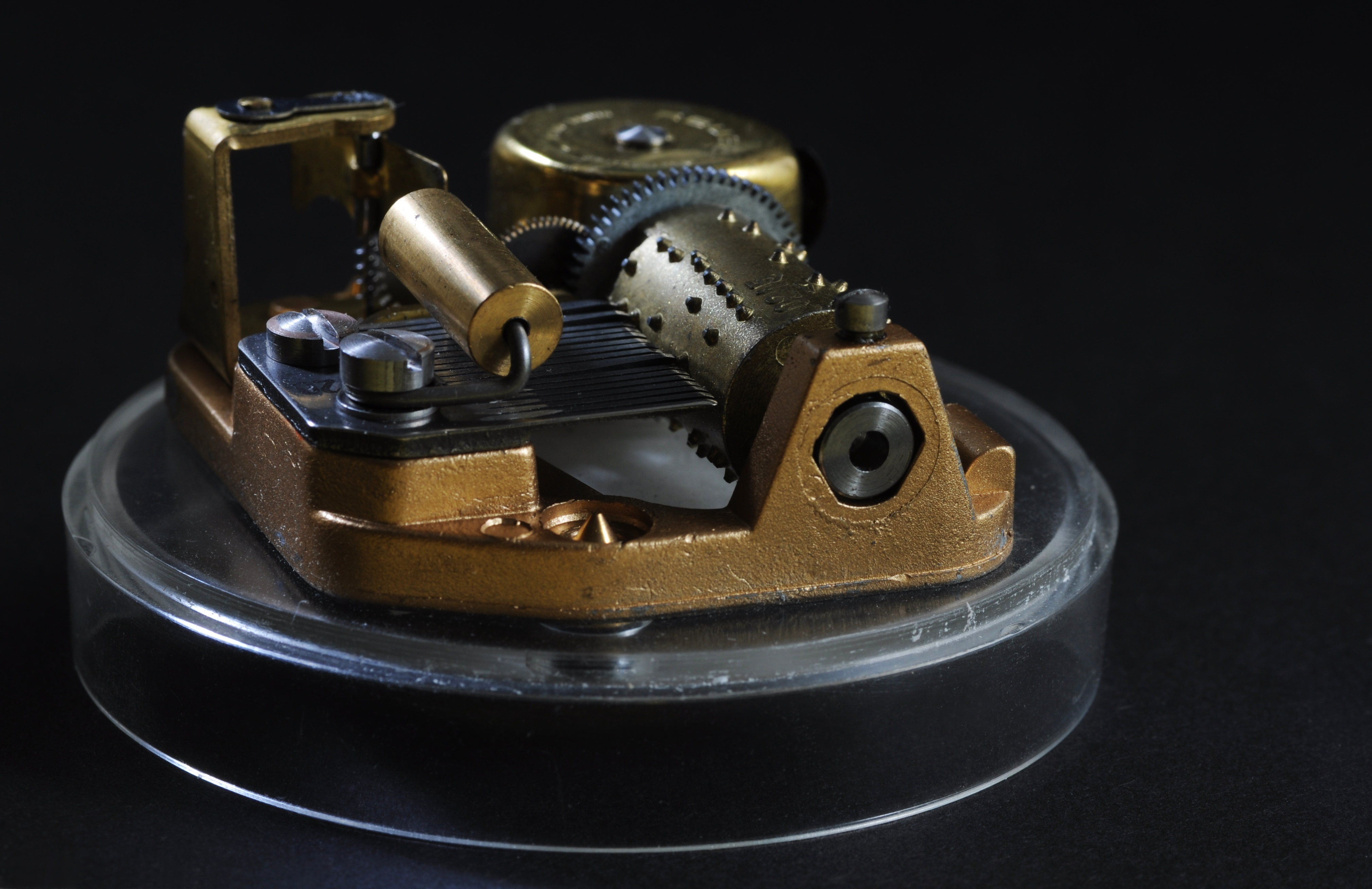 Musical box manufactured in Switzerland